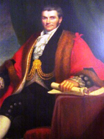 Richard Peek was a tea merchant in Liverpool and Londo - born and died in Devon. In the picture he is shown in his regalia as Sheriff of London. The painting is still in the Peek family.